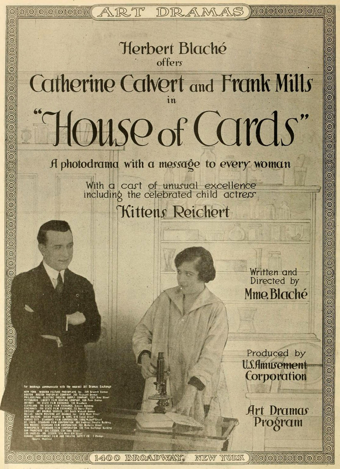 Advertisement in Moving Picture World for House of Cards (1917).